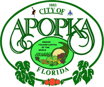 The official city seal of Apopka, Florida.